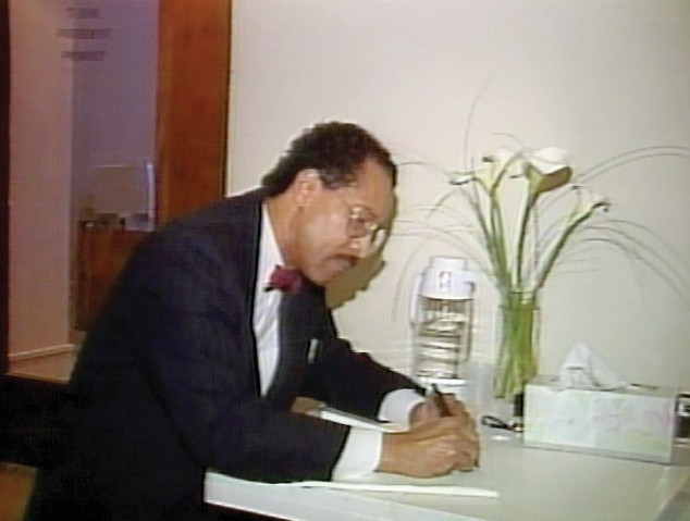 Professor James H. Williams, Jr. sitting in protest in front of the Office of the President and Provost, Massachusetts Institute of Technology, Cambridge, Massachusetts (USA) 3 April 1991.